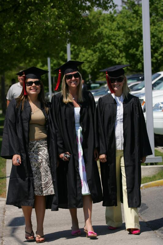 Ohio Wesleyan University Graduation